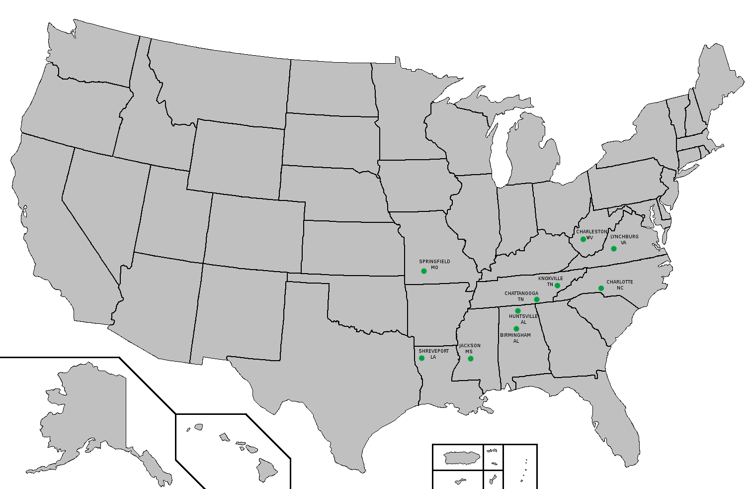 A map of the 10 most Bible-minded cities in the United States according to a study by the Barna Group in a survey of 42,855 interviews conducted between 2005 and 2012. The survey was commissioned by the American Bible Society.